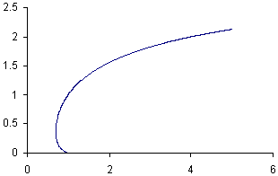 The graph y = x s {\displaystyle {\sqrt {x _{s .